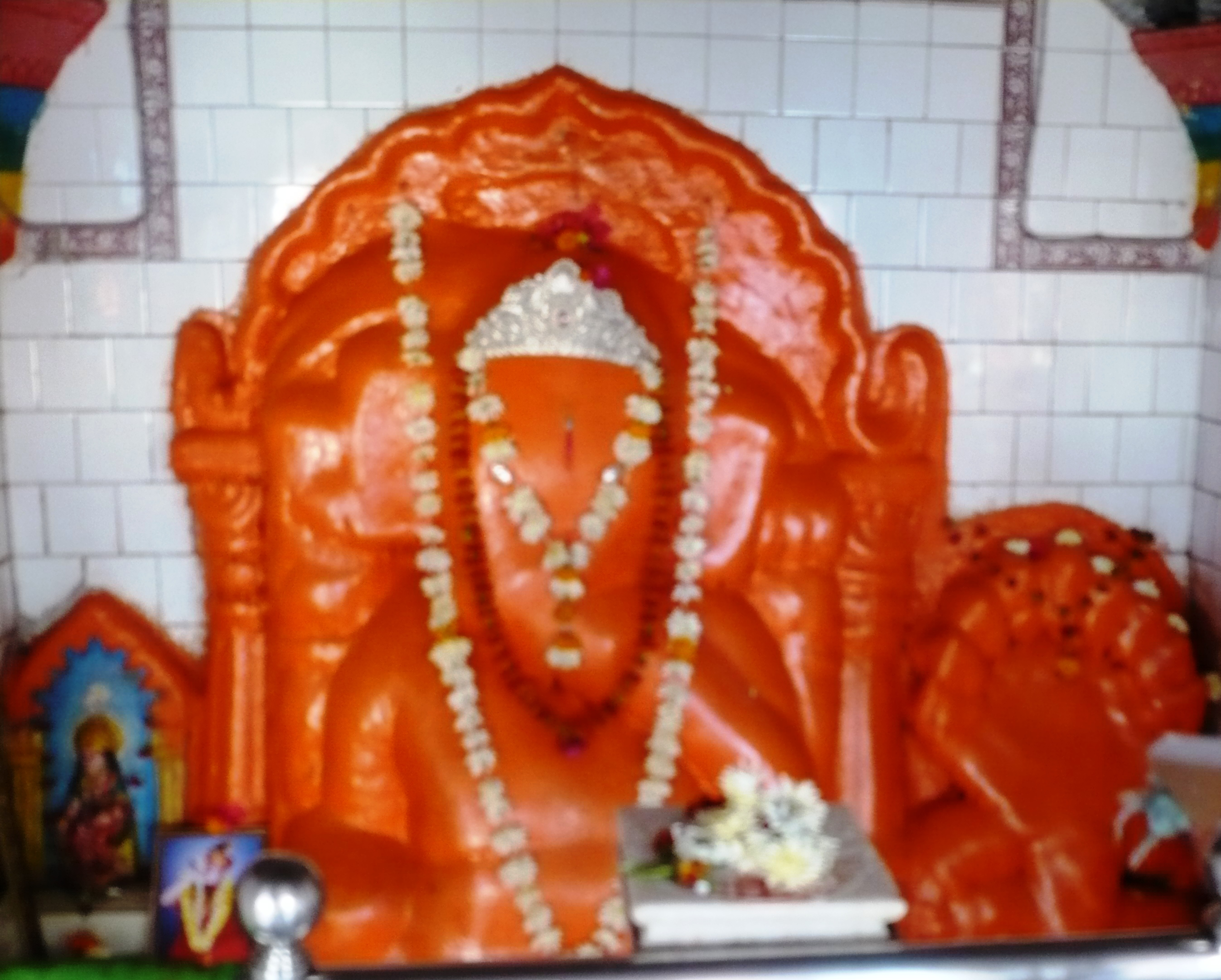 A photograph of Dharnidhar Ganesh from the Dharnidhar Ganesh Temple, at Pavni, District-Bhandara,State-Maharashtra,INDIA